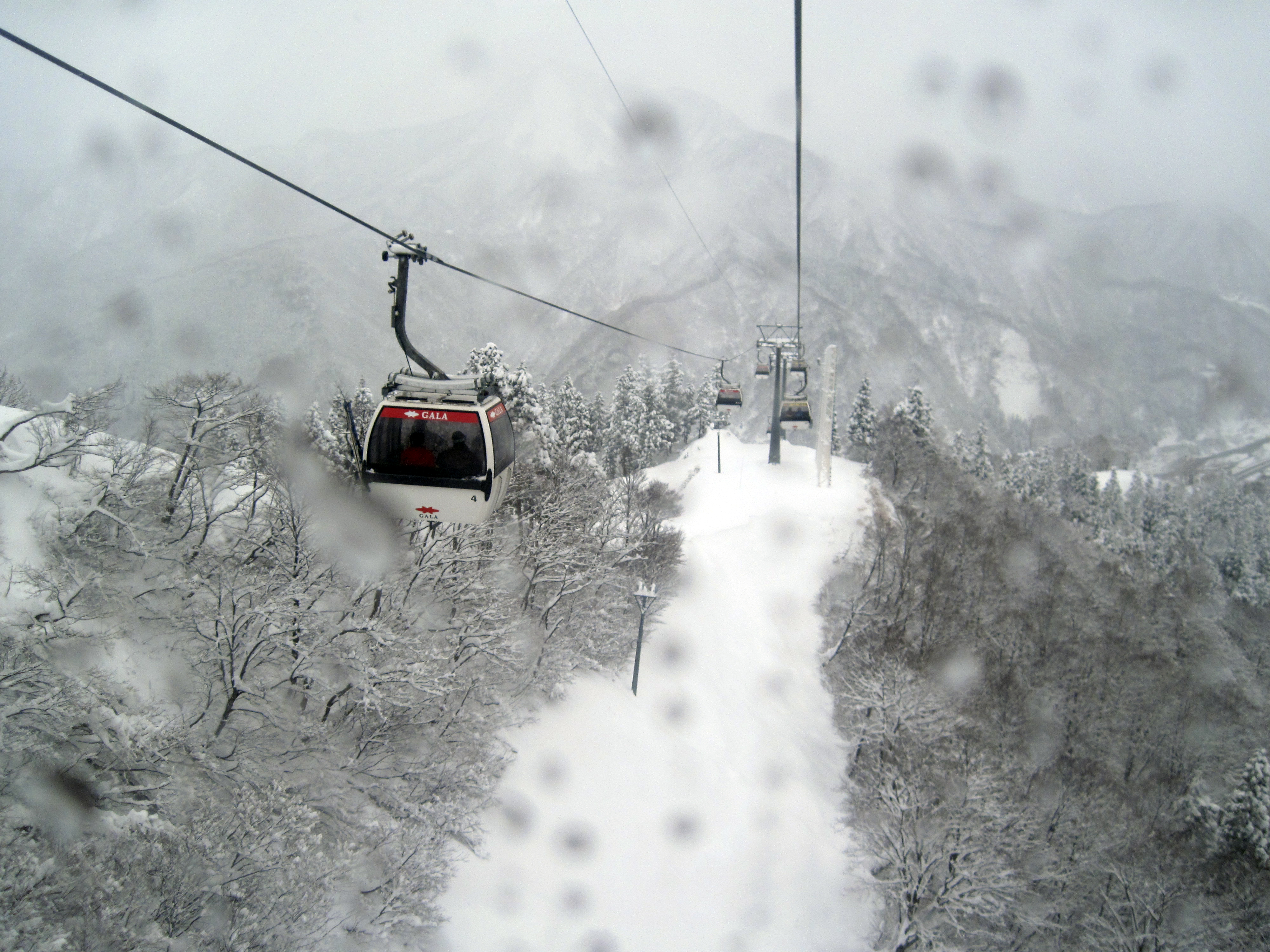 View from the gondola of Gala Yuzawa ski resort.